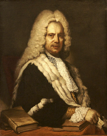 Dipinto ubicato nel museo canonicale di Verona